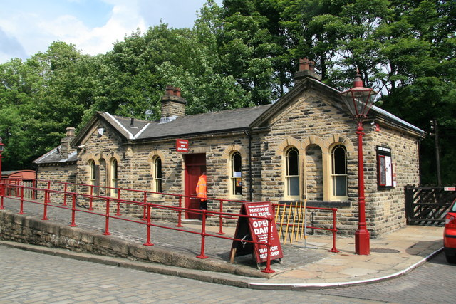 Ingrow Station Keighley & Worth Valley Railway. Well preserved Midland Railway station on this preserved line.